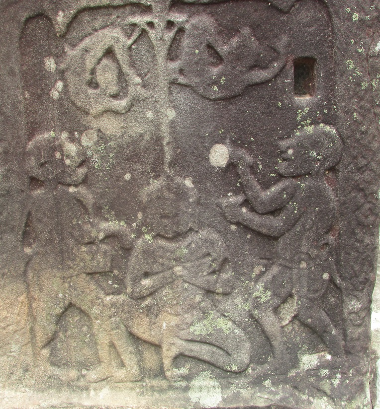 ancient bas-relief of pradal serey match with referee.